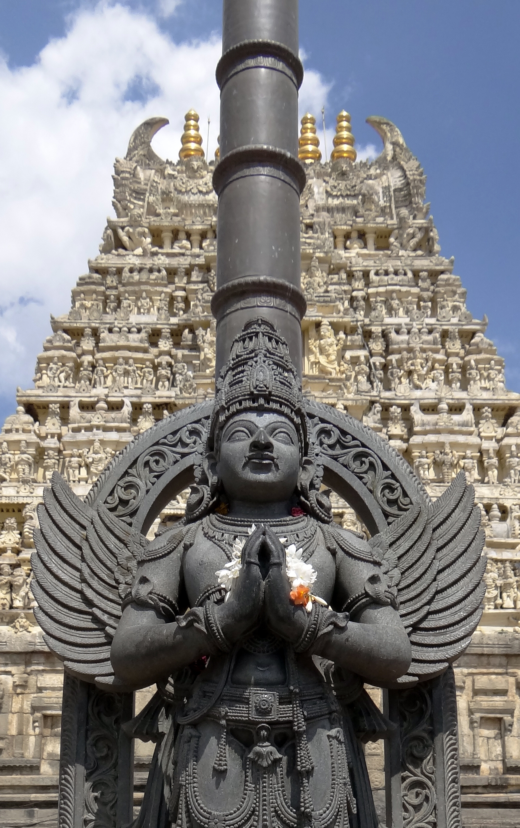 This is the statue of Garuda that stands opposite to the Chennakeshava temple at Belur. This statue, along with Garuda sthamba was erected during the Vijayanagara empire. Garuda is the sacred steed of lord Vishnu and you can see the statue of Garuda in all the temples dedicated to lord Vishnu.